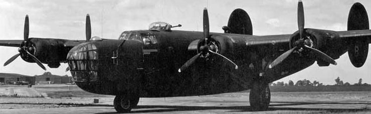 Consolidated B-24D-65-CO Liberator - 42-40509 -Cookie - 492bg 858bs lost in accident Oct 7, 1943.